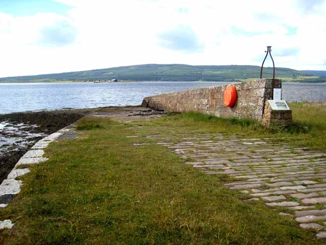 The slipway at Meikle Ferry (north) At one time a ferry operated over the Dornoch Firth at this point, with the two ferry landings each at the end of a long spit. The buildings at the southern slipway NH7385 in the hamlet of Ferry Point can be seen on the far shore.